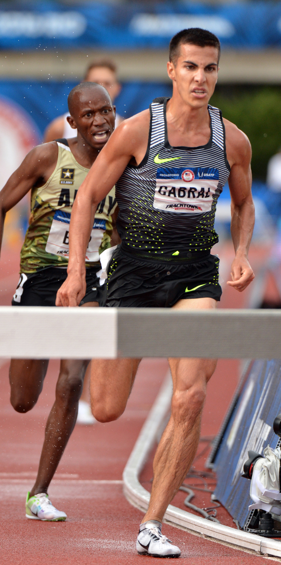 U.S. Army Sgt. Hillary Bor of Fort Carson, Colorado, finishes runner-up to Evan Jager in the men's 3,000-meter steeplechase July 8 at the 2016 U.S. Olympic Track & Field Team Trials at Hayward Field in Eugene, Oregon, to earn a berth in the 2016 Rio Olympic Games. Jager won the race in 8 minutes, 22.48 seconds, followed by Bor (8:24.10) and Donn Cabral (8:26.37). U.S. Army photos by Tim Hipps, IMCOM Public Affairs